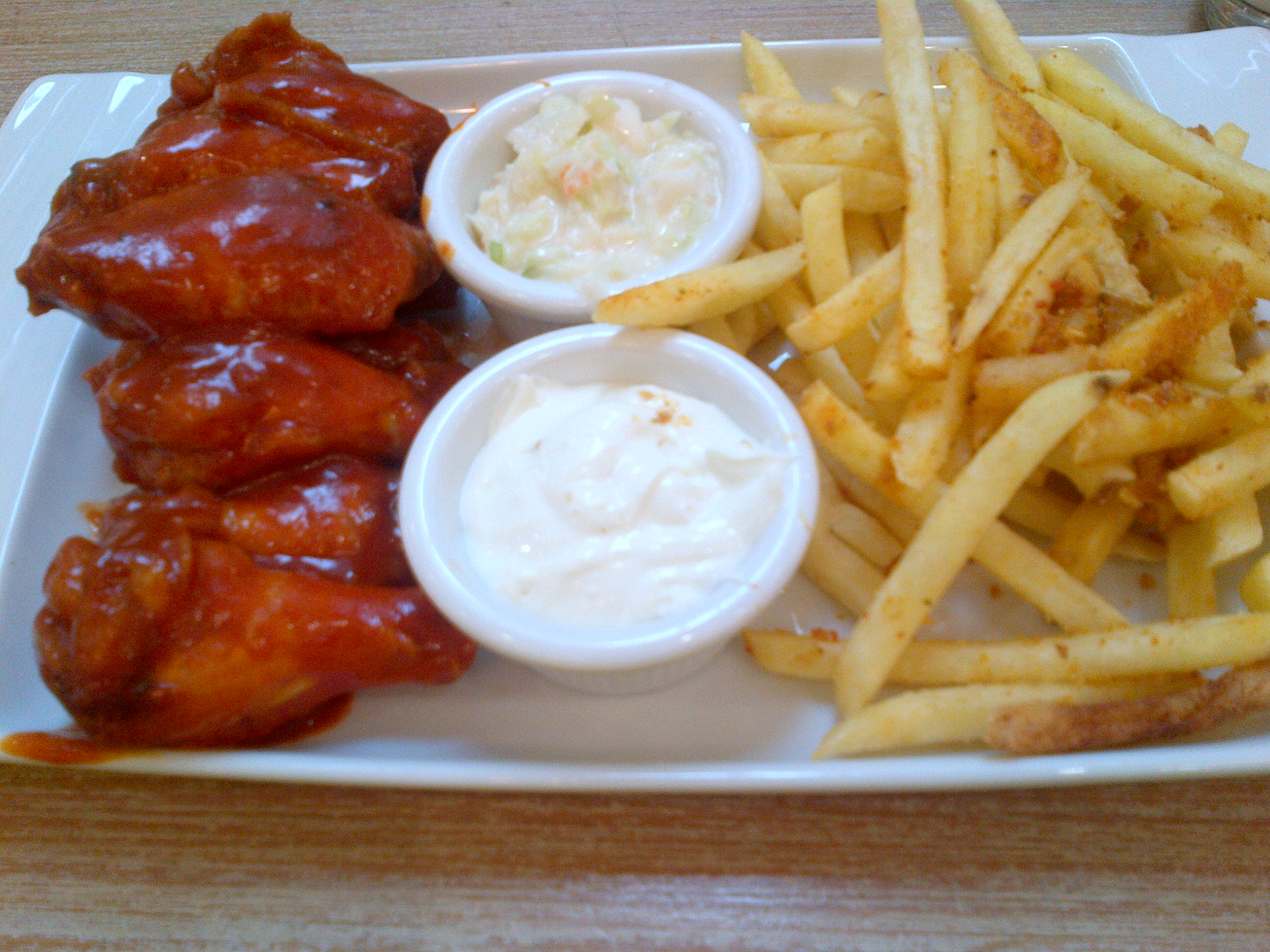 Hot wings, French fries, coleslaw and another sauce, all in a big plate, Ankara.